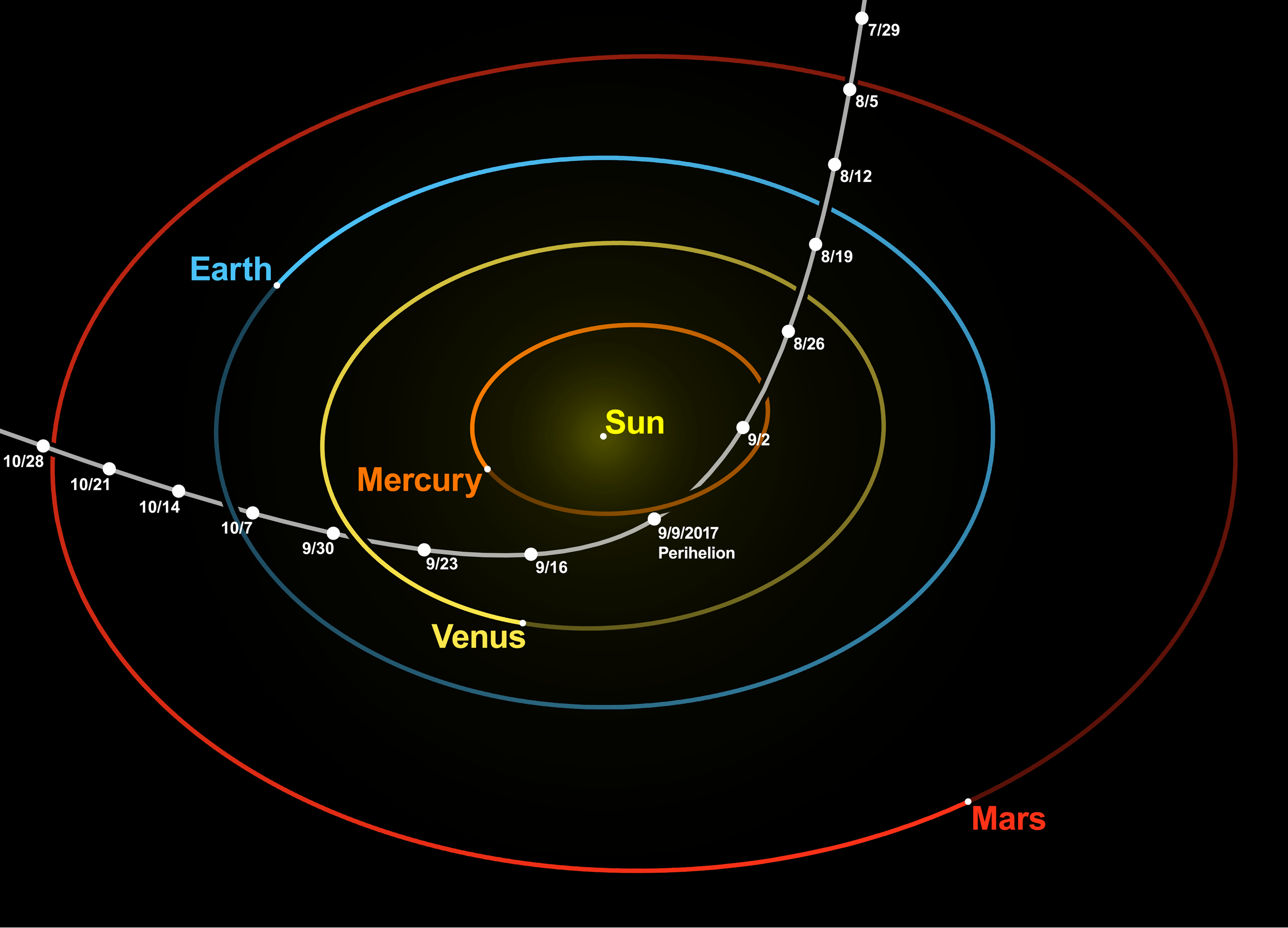 Hyperbolic trajectory of ʻOumuamua through the inner Solar System, with the Sun at the focus, showing its position every 7 days. The planet positions are fixed at the perihelion on September 9, 2017. Shown from a three-quarter perspective, roughly aligned to the plane of ʻOumuamua's path.